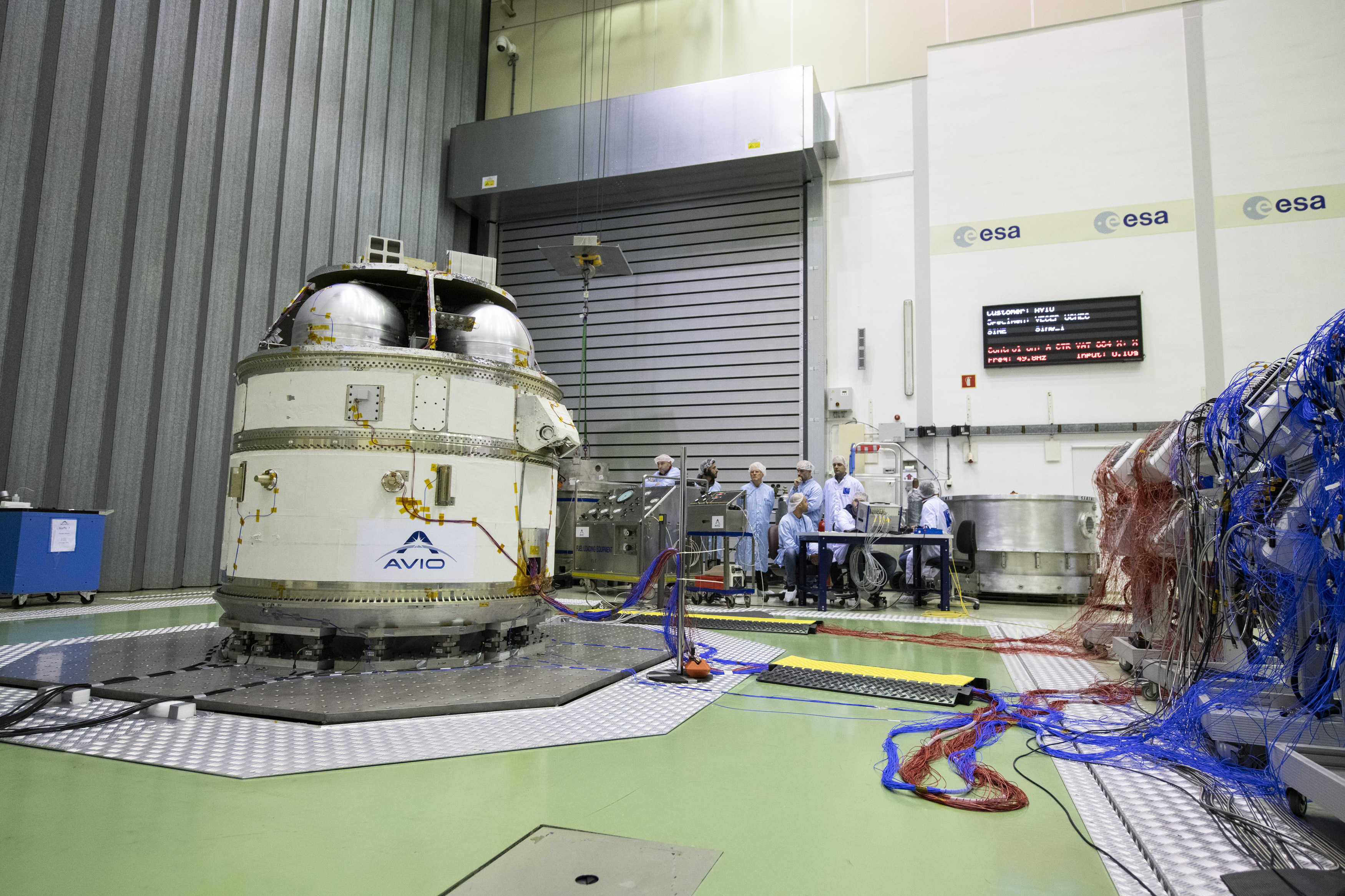 ESA's upper stage propulsion module for use on Europe's future Vega-C in 2019, underwent vibration testing on the Quad shaker table at the ESTEC Test Centre in Noordwijk, the Netherlands, during November 2018. This Attitude Vernier Upper Module, AVUM+, provides several improvements on Vega's AVUM including a composite skin sandwich structure, increased propellant load and main engine re-ignition capabilities, giving more flexibility for multi-payload missions. ESA’s Test Centre in Noordwijk, the Netherlands, simulates every aspect of space including recreating the equivalent vibration of a rocket launch.